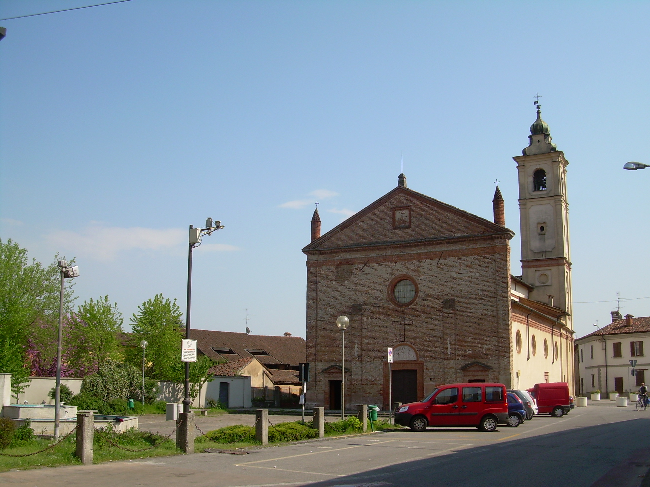 Castiglione d’Adda, the Beata Vergine Incoronata Church.